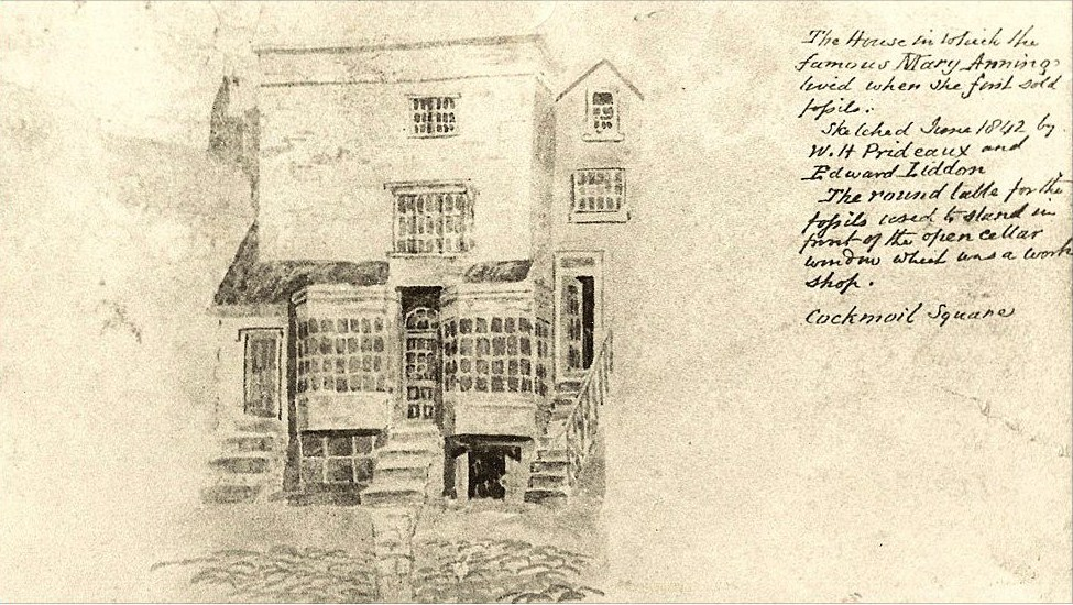 Drawing of Mary Anning's house in Lyme Regis, Dorset, England. June 1842. Text on the drawing reads: The House in which the famous Mary Anning lived when she first sold fossils. Sketched June 1842 by W. H. Prideaux and Edward Liddon The round table for the fossils used to stand in front of the open cellar window which was a work shop. Cockmoil Square Source: screengrab of the drawing as shown on the BBC slideshow about Mary Anning at [1]